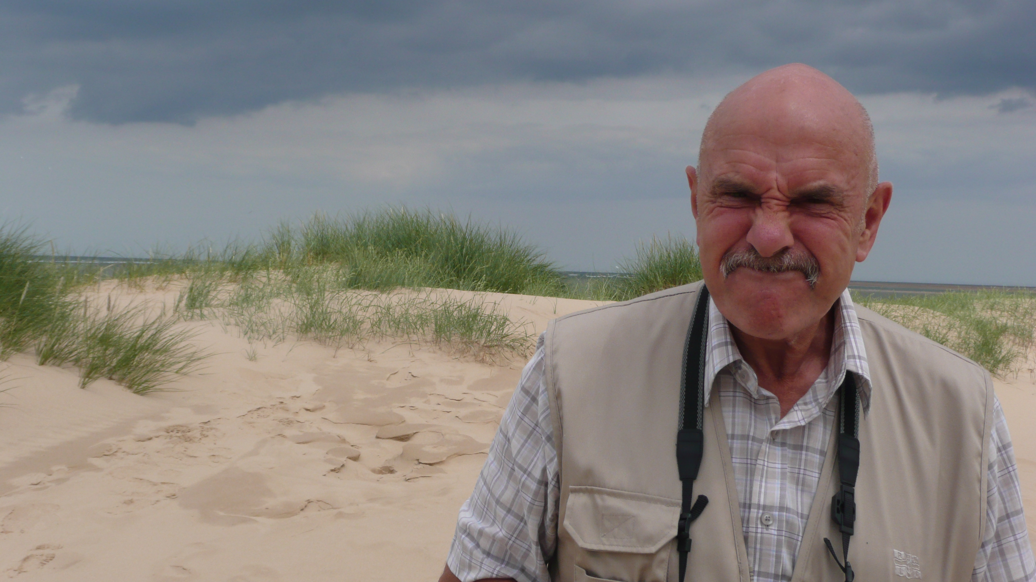 Pete and his funny face